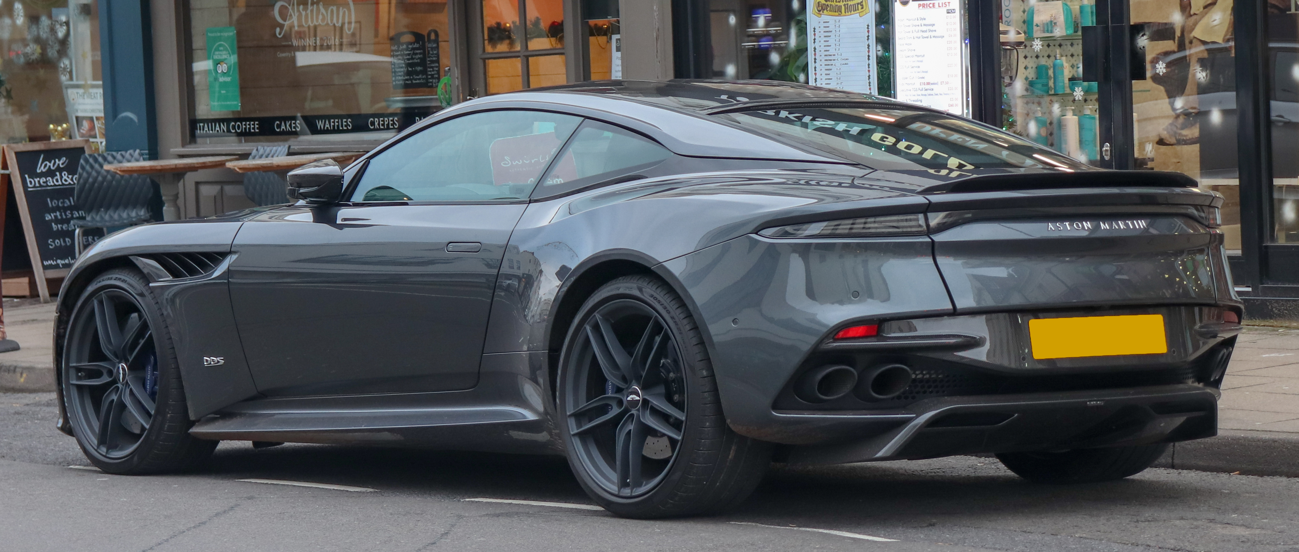 2018 Aston Martin DBS Superleggera V12 Automatic 5.2 Rear Taken in Leamington Spa